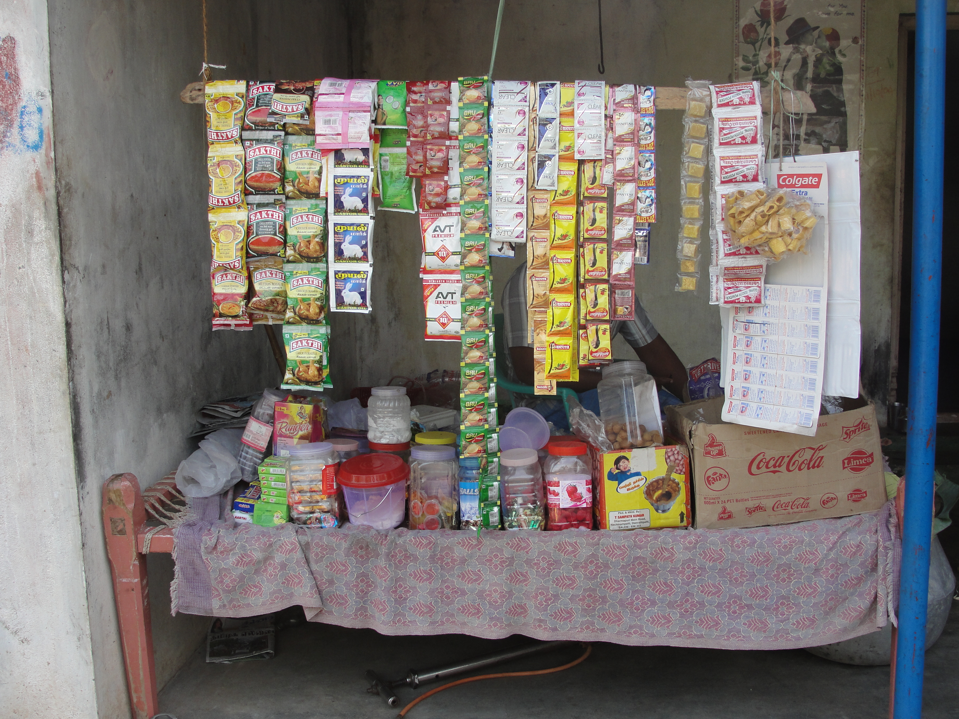 A Petty shop in village